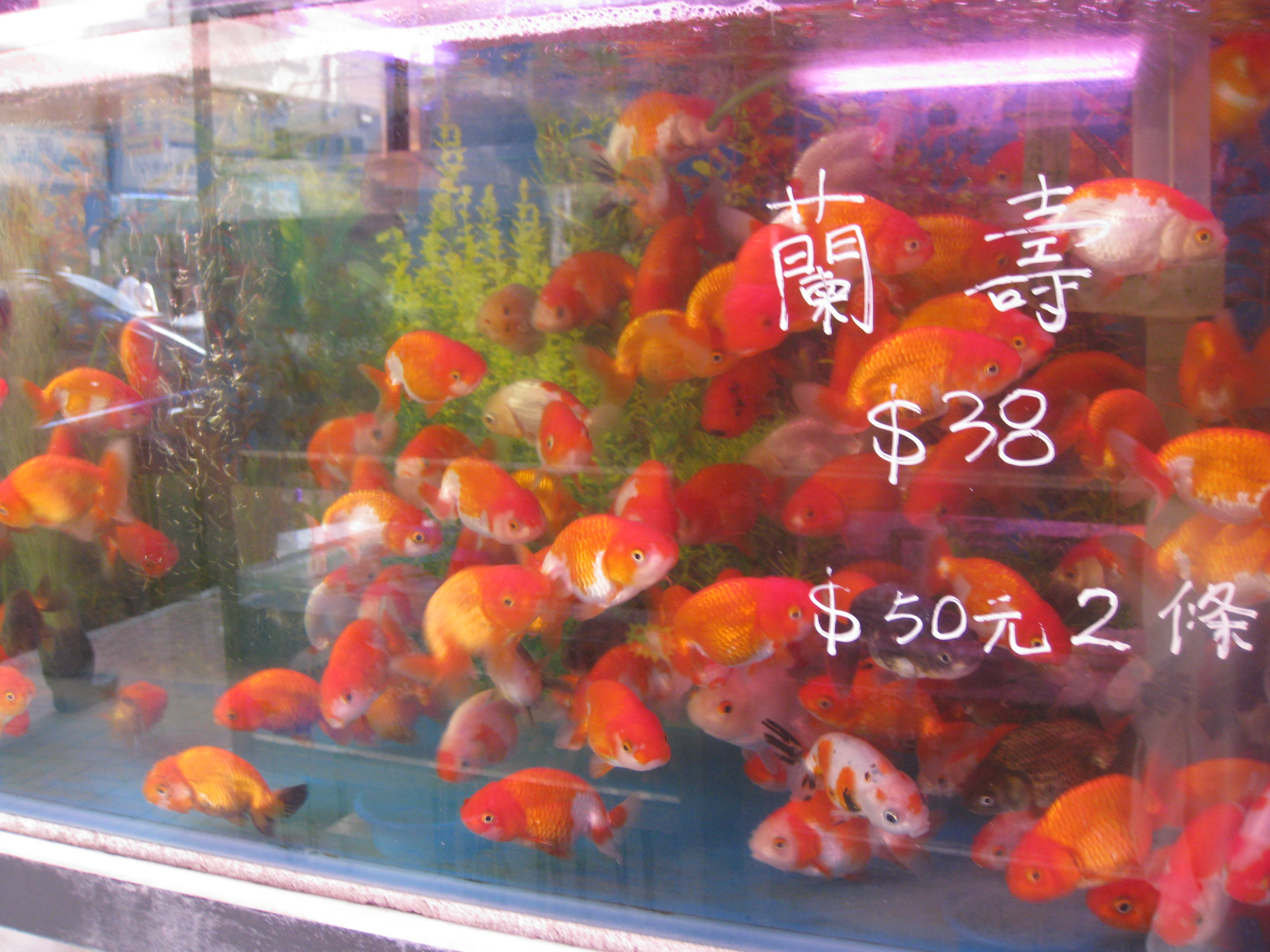 Hong Kong Goldfish Market